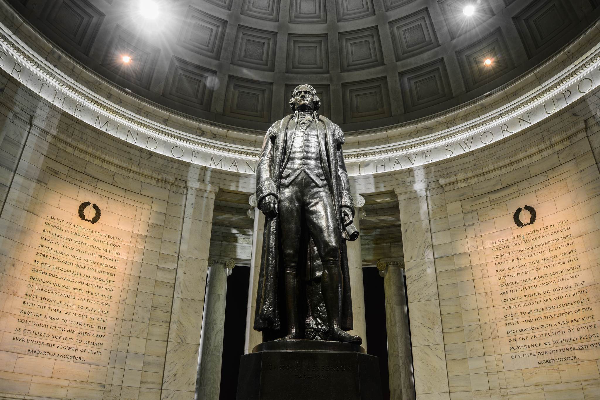 Thomas Jefferson Memorial, inside at night